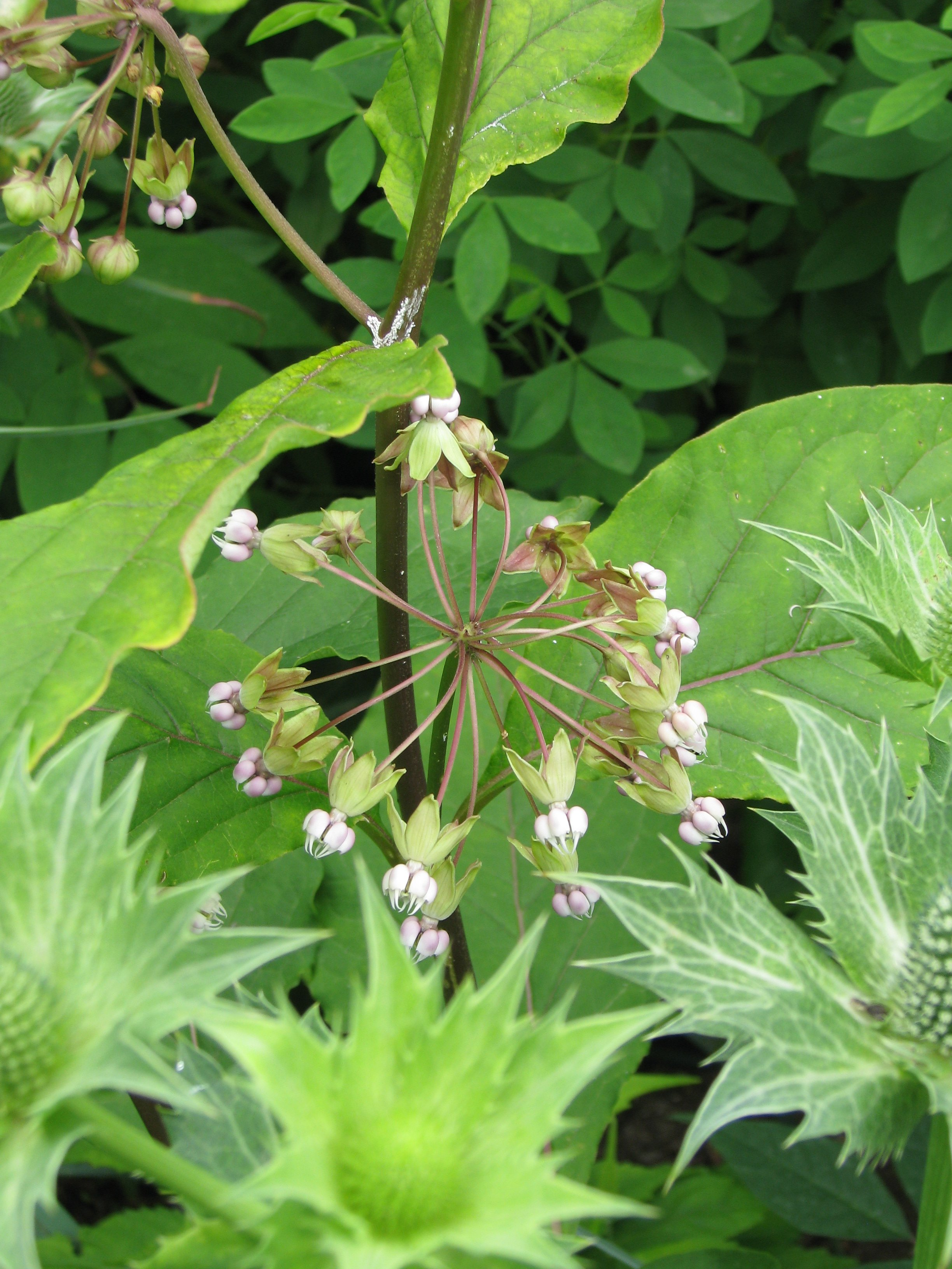 Asclepias exaltata L. - Poke milkweed